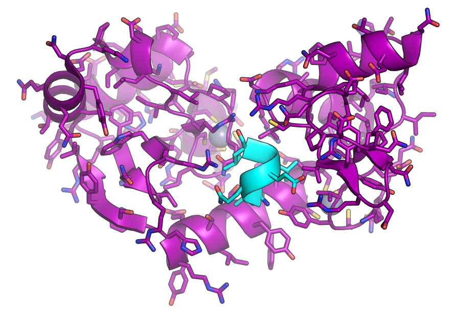 X-ray crystallography structure of the human papillomavirus oncoprotein E6 (purple) in complex with the LxxLL motif of ubiquitin ligase E6AP (cyan). Gray spheres in background are zinc ions. Rendered using PyMol from PDB 4GIZ. Structural basis for hijacking of cellular LxxLL motifs by papillomavirus E6 oncoproteins. Zanier, K., Charbonnier, S., Sidi, A.O., McEwen, A.G., Ferrario, M.G., Poussin-Courmontagne, P., Cura, V., Brimer, N., Babah, K.O., Ansari, T., Muller, I., Stote, R.H., Cavarelli, J., Vande Pol, S., Trave, G.(2013) Science 339: 694-698 PMID: 23393263